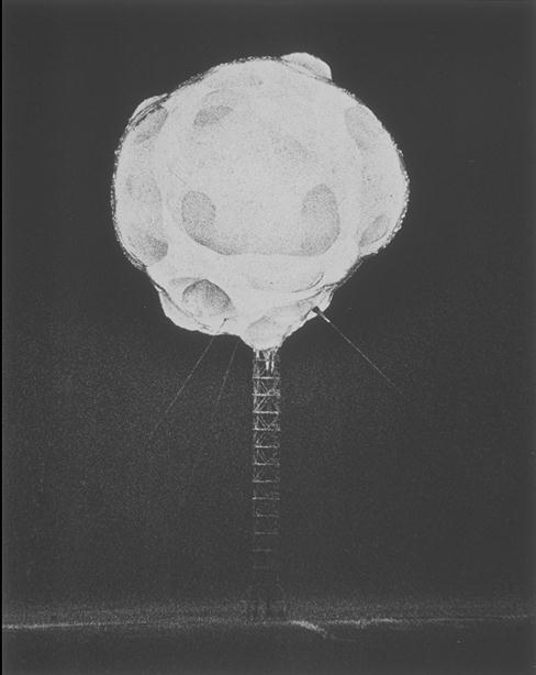 Operation Upshot-Knothole - Harry. The shot taken at 10 milliseconds after the detonation using rapatronic camera by EG&G. Radioactive particles "sputtered" against the back of the formed fireball and thus produced the spotted and non-uniform surface.